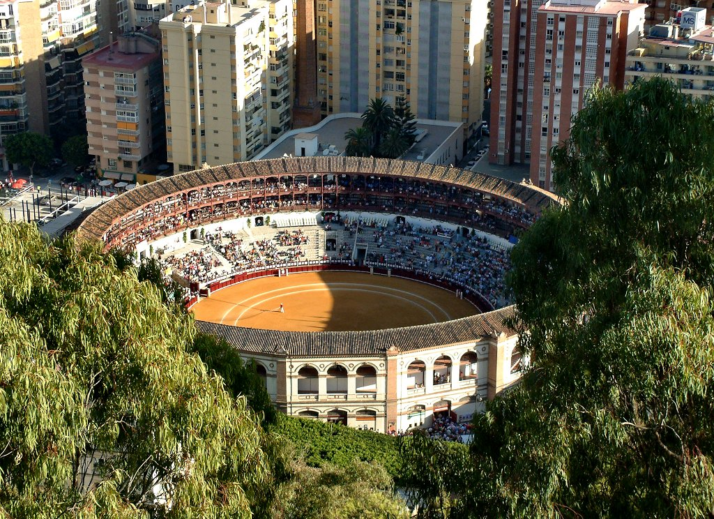 Author: Hans Lohninger Description: Bullfight Arena of Málaga Reference